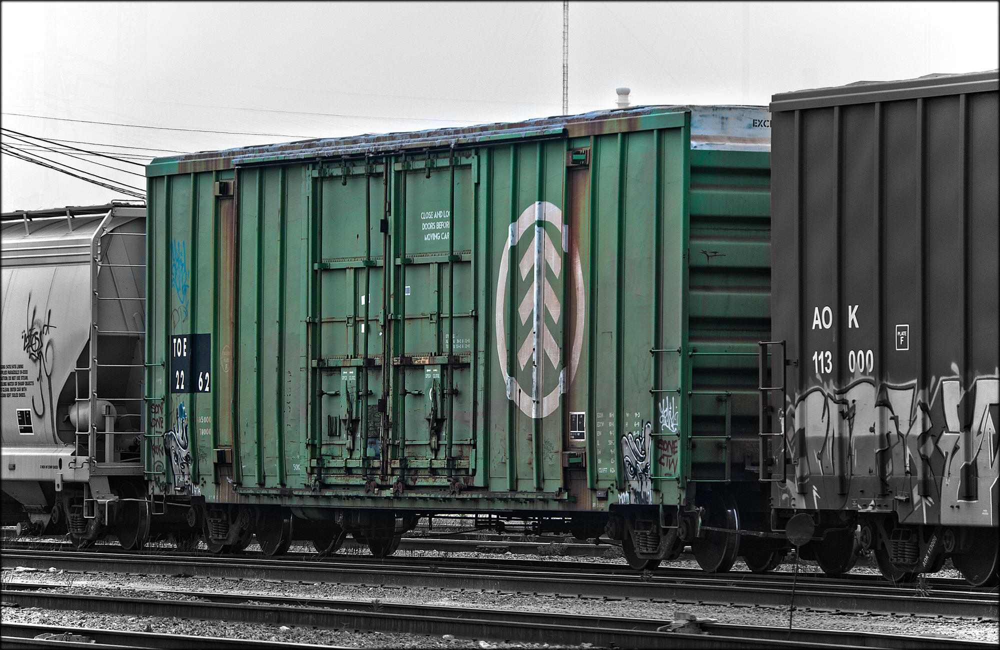 An old and worn boxcar with Texas, Oklahoma and Eastern Railroad markings. Spotted at Burlington Northern Santa Fe's Cherokee Yard in Tulsa, Oklahoma.